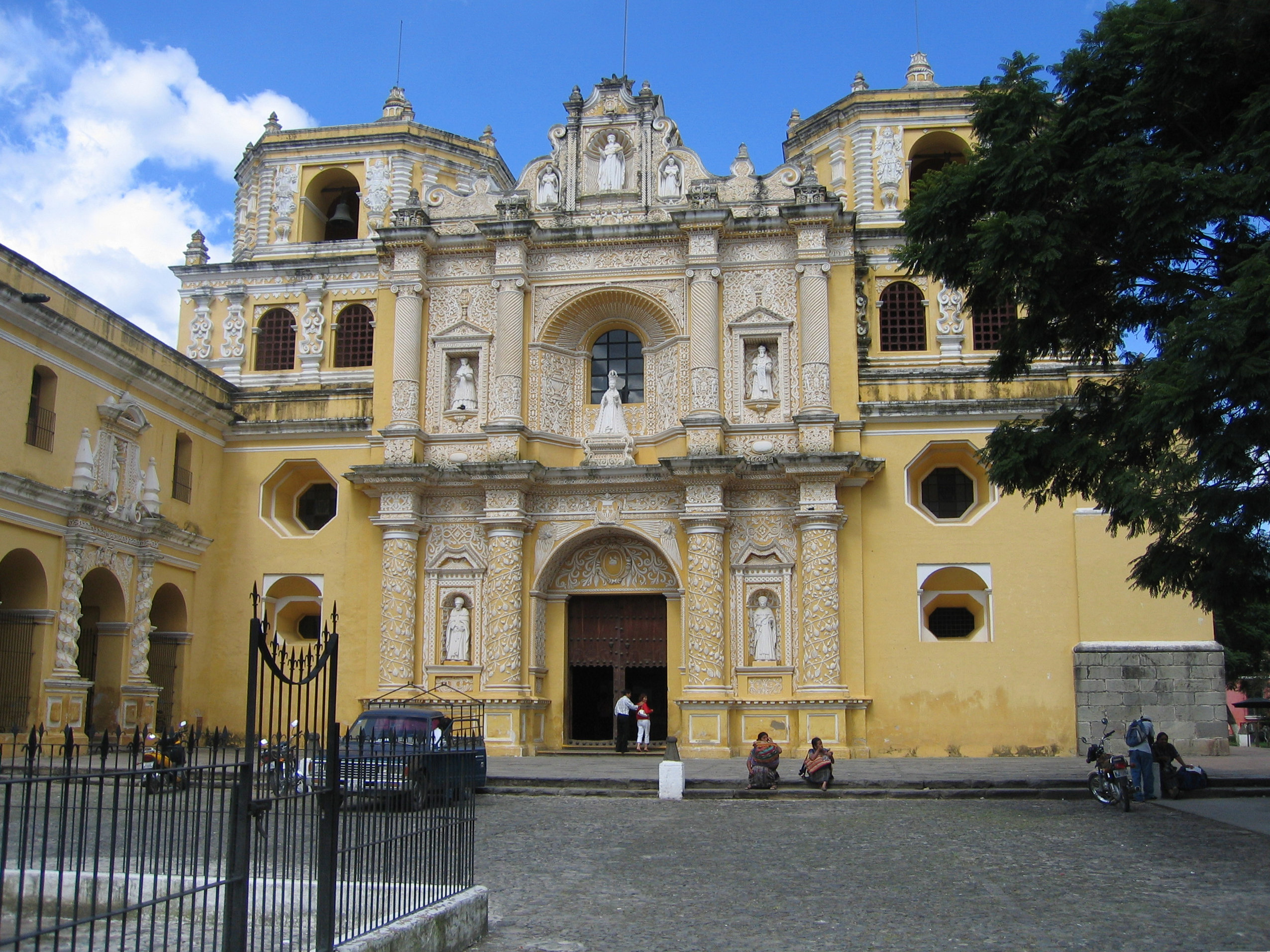 Antigua (Guatemala), La Merced church, August 2006